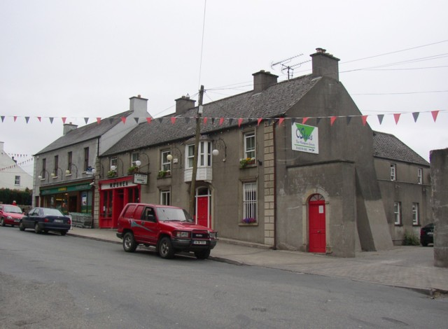 Shop and bar, Borris, Co. Carlow. Typical Grocer's shop, bar and house, all in two adjacent buildings, plus a hardware shop in the yard at the back. There is a connecting door between the shop and the bar, and in the bar there are all sorts of old hardware items on display.